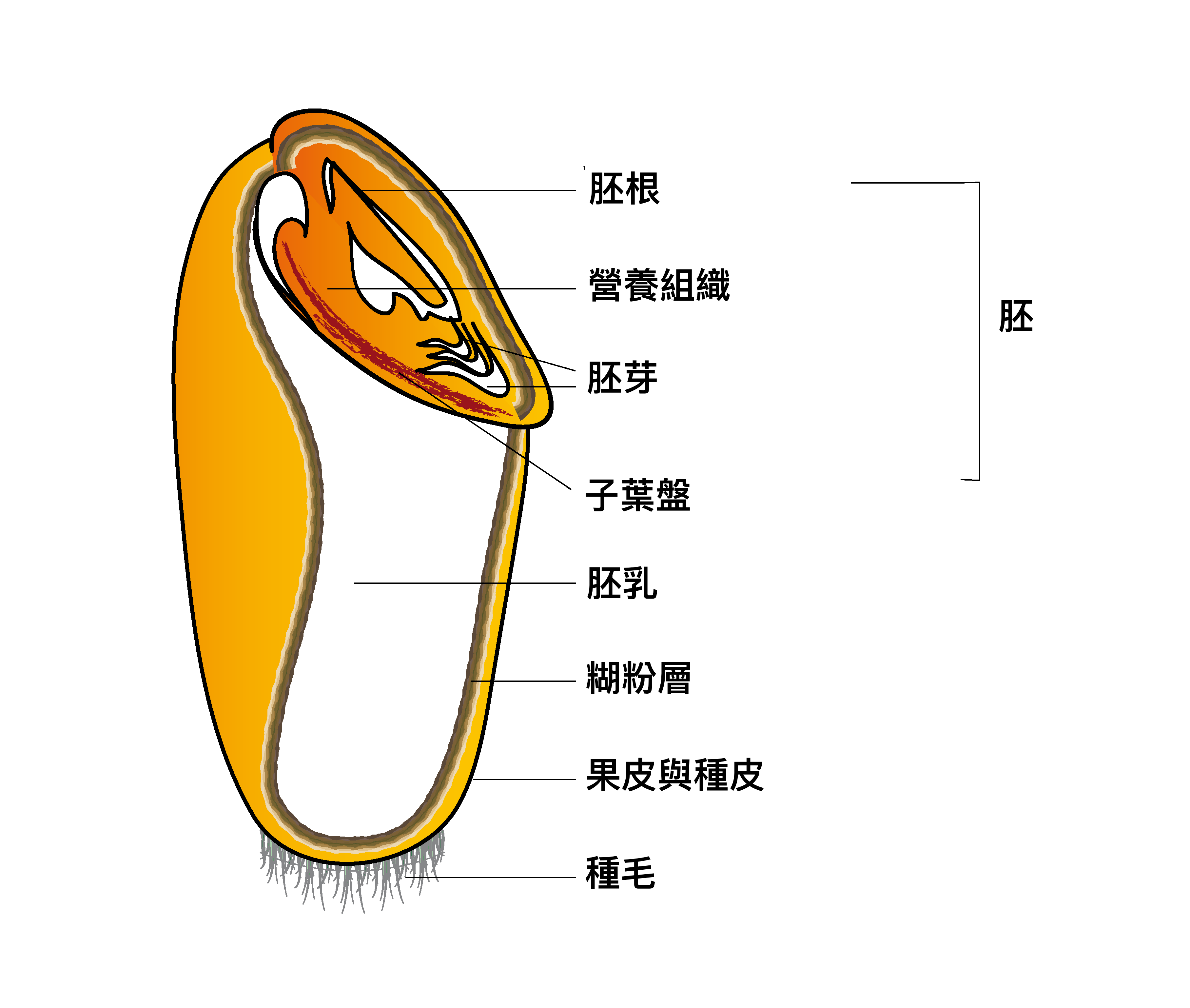 Model of a wheat grain